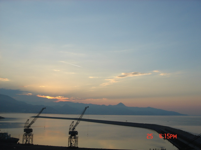 Port of Giresun, Turkey.